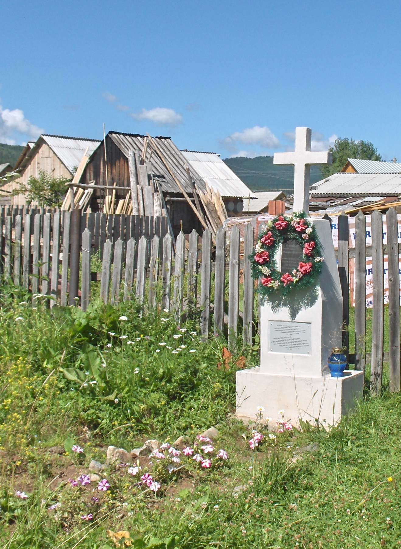 The grave of Polish soldiers killed in the battle of Carlibaba in january 1915